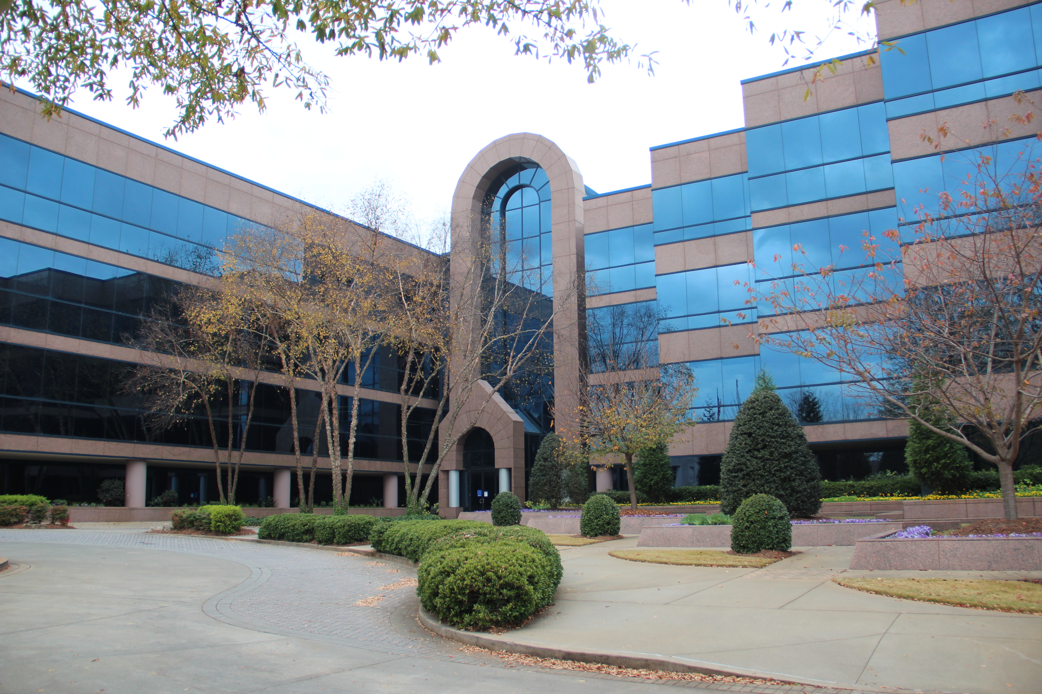 11460 Johns Creek Pkwy, Johns Creek, GA